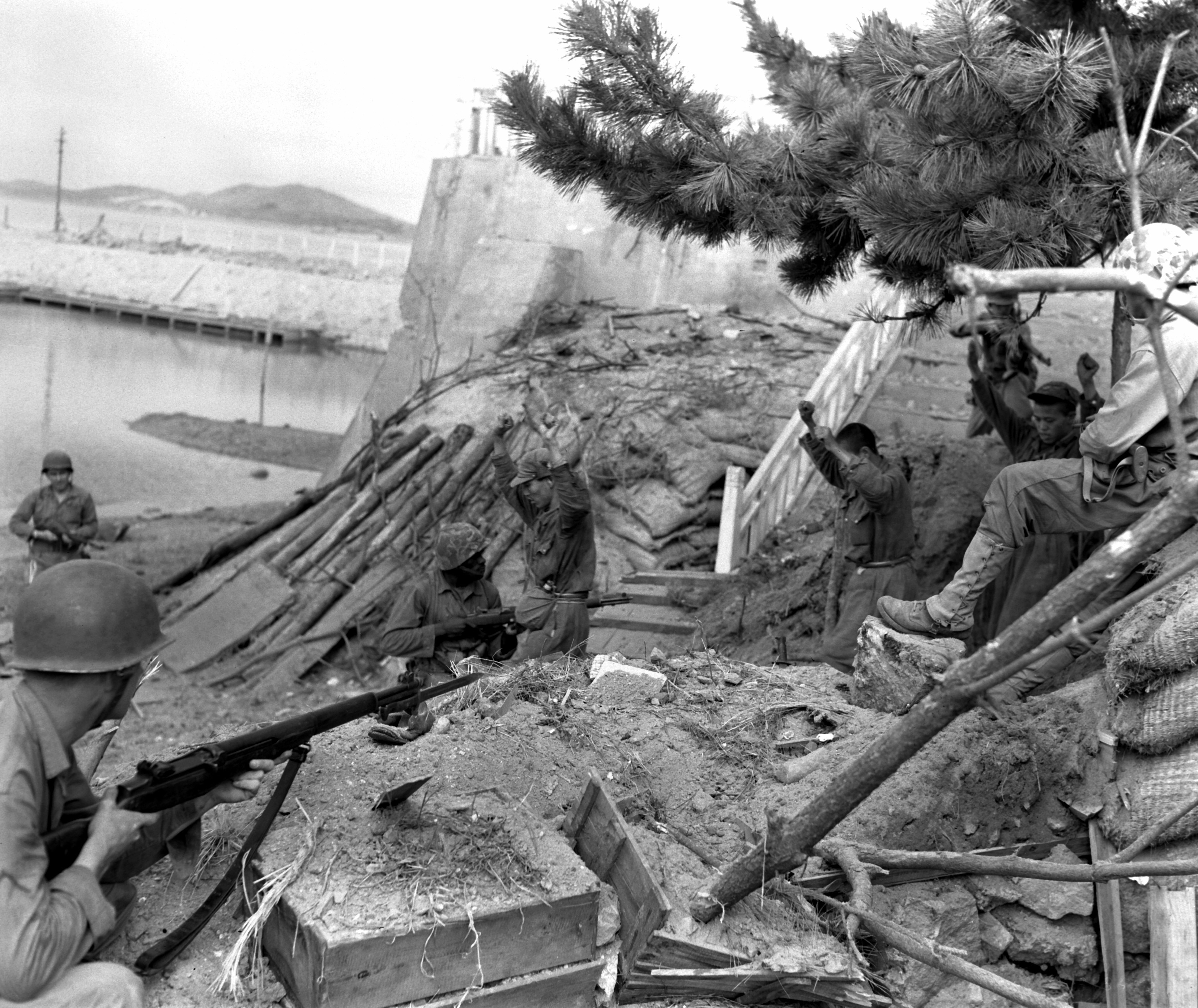 U.S. Troops force four North Korean stragglers from Bunker, where they had laid for hours before surrendering, during the invasion U.S. Forces of Wolmi-Do Island, Korea. ID #HA-SN-98-06947